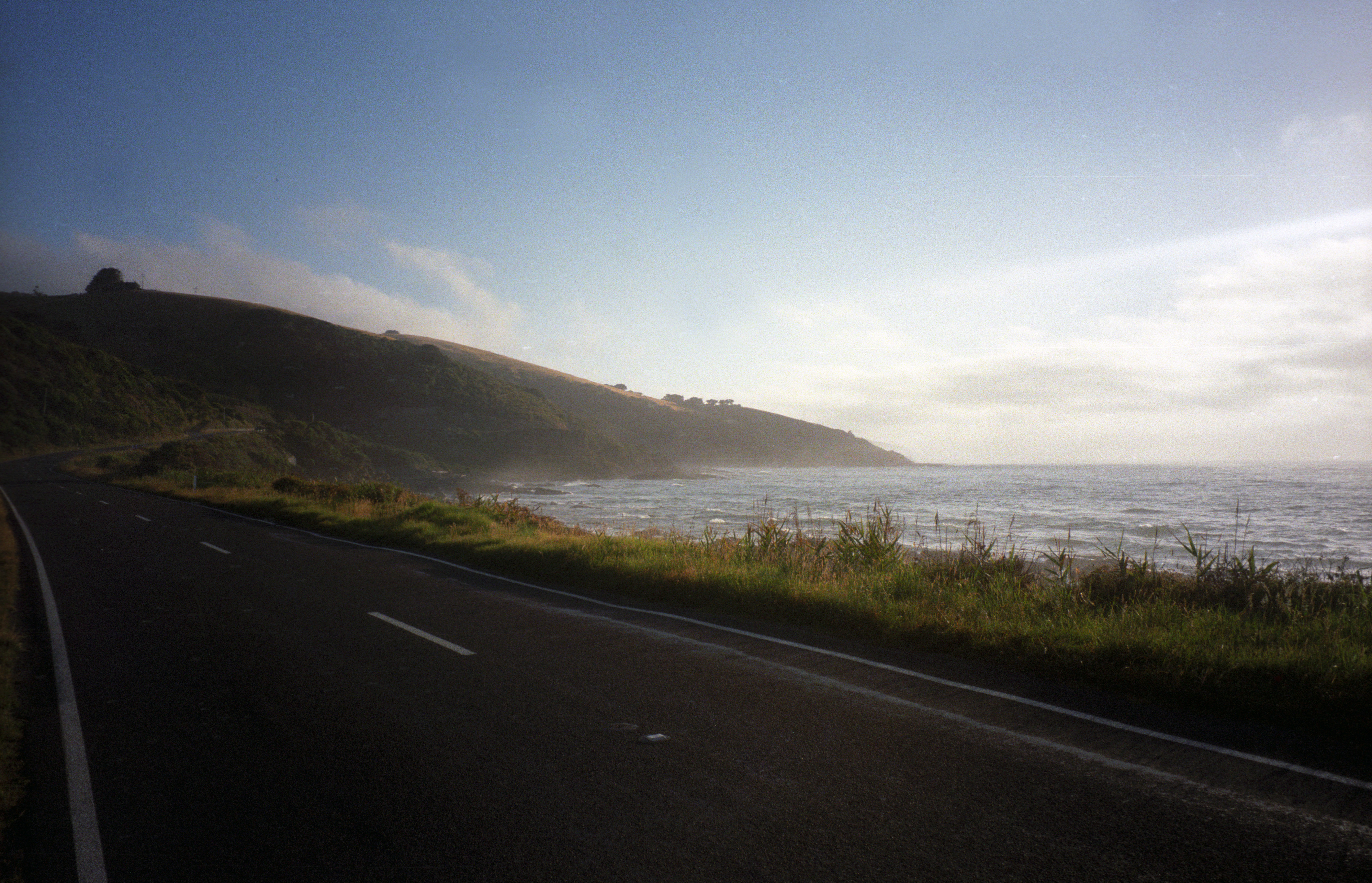 Day 14 – Torquay to Melbourne